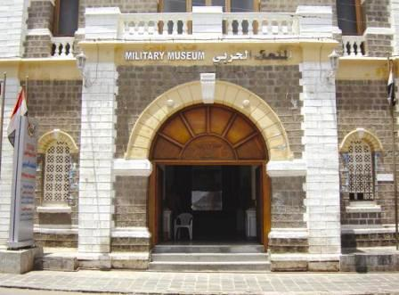 The Military Museum in Aden, Yemen.